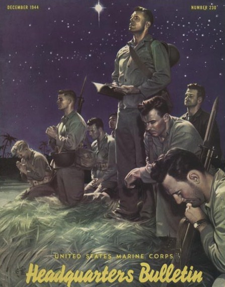 "Marines at Prayer" promotional poster produced by Raymond during his service in World War II as a US Marine.